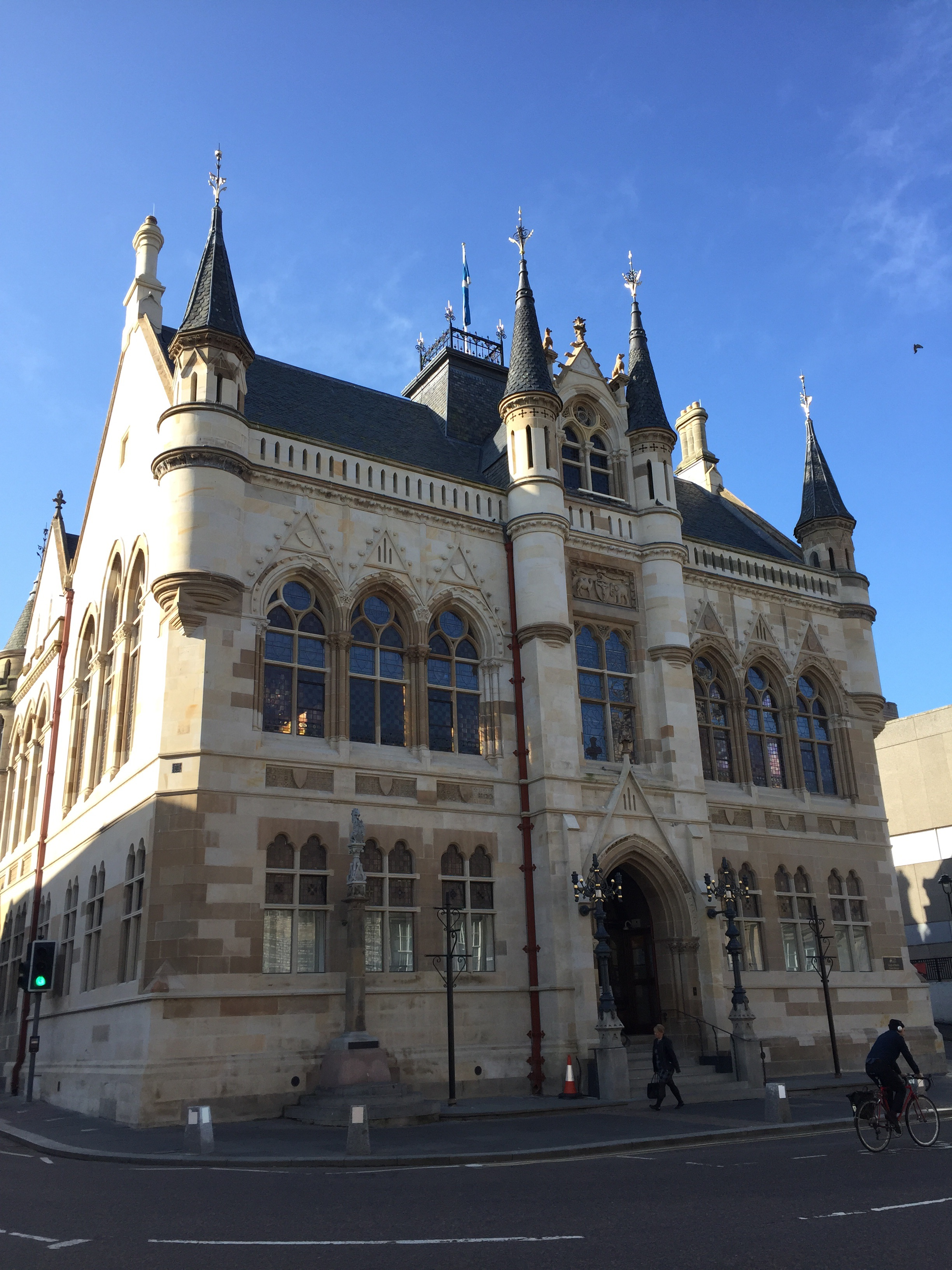 Inverness, High Street, Town Hall in Scotland.